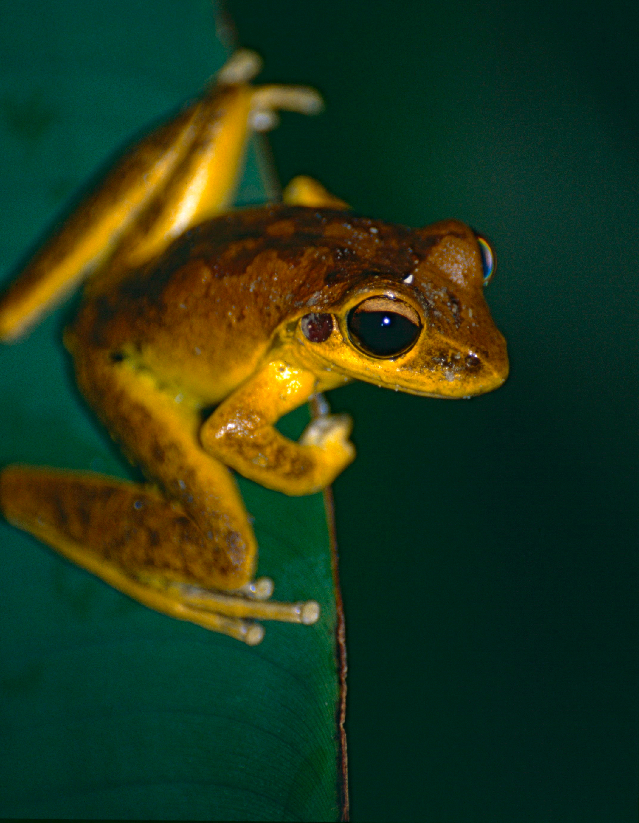 Daintree, North Queensland, AUSTRALIA Scanned Slide from Nov 2000